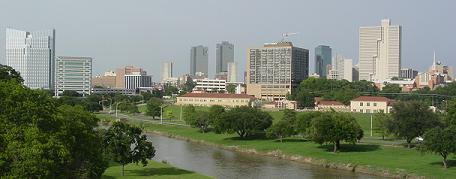 Image of downtown Fort Worth; taken by gdvanc and available for use under